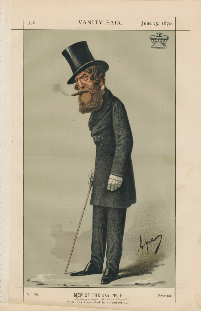 Caricature of Thomas Heron Jones, 7th Viscount Ranelagh (1812-1885). Caption read "He has succeeded in volunteering".